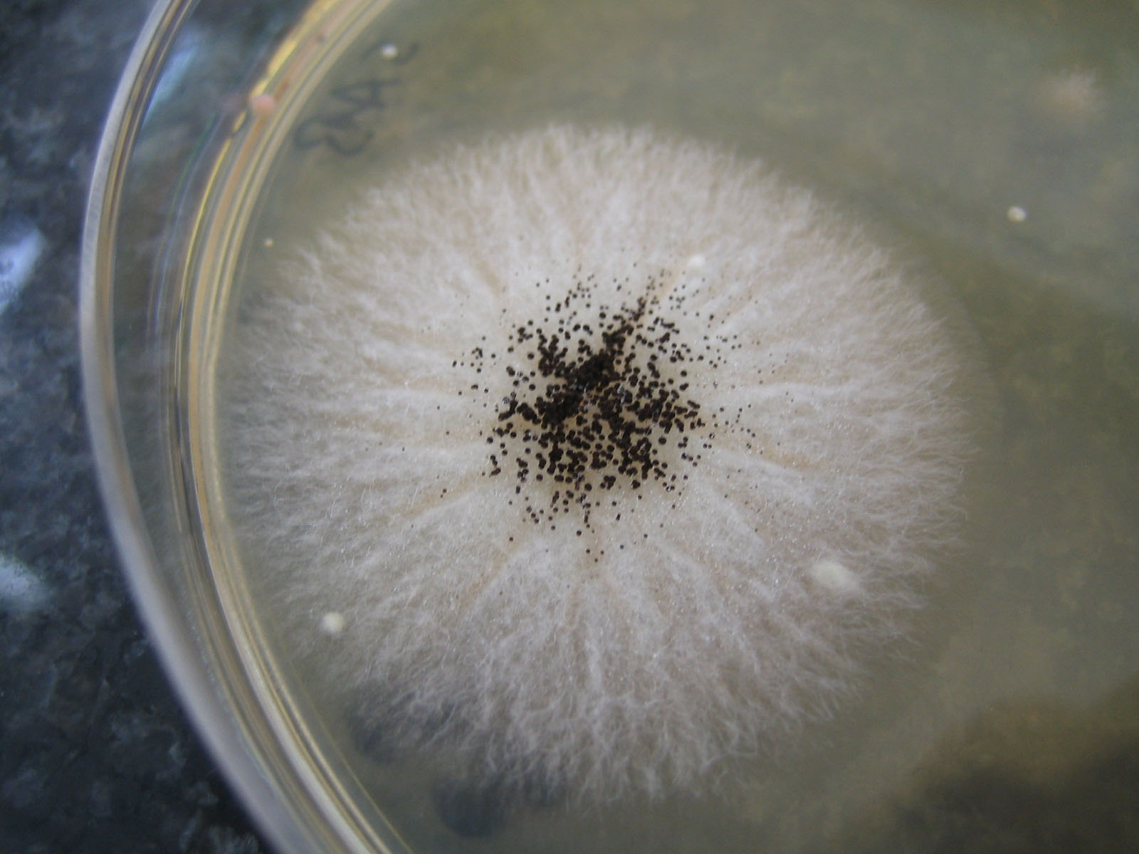 Fungus on a SAB petri dish